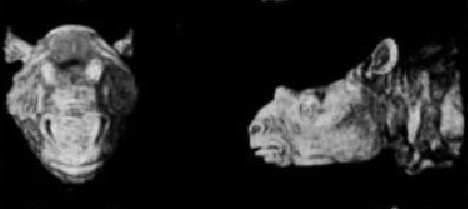 Protitanotherium